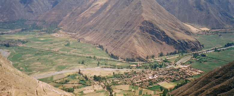 View from paraglider into the Rio Urubamba valley, Peru